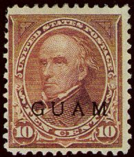 US postage stamp; 10c brown from the 1899 issue overprinted GUAM for use in Guam depicting American statesman Daniel Webster.